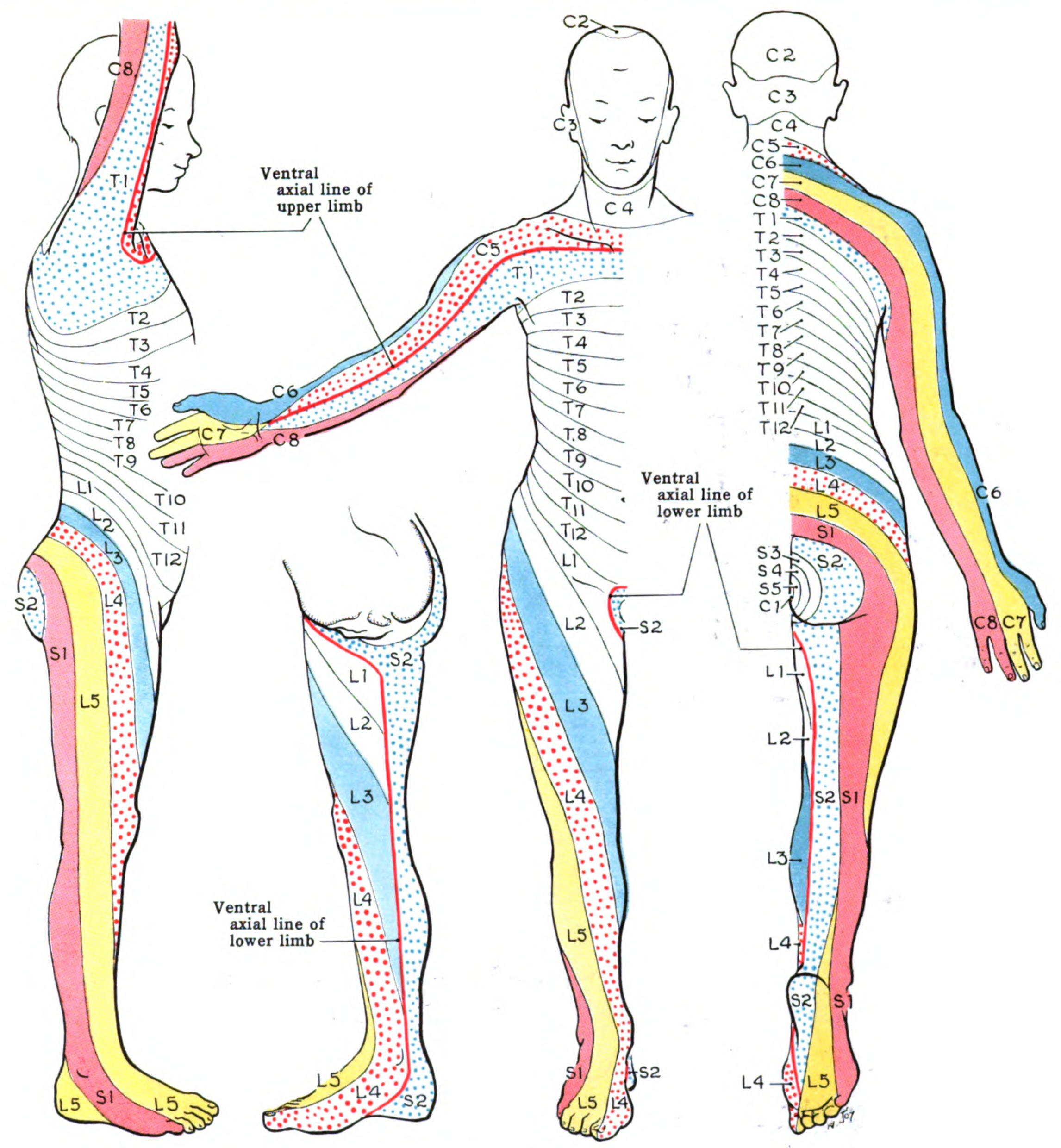 According to the clinical, surgical, and experimental findings of Keegan and Garrett, the dermatomes of the limbs from the 5th cervical to the 1st thoracic, and from the 3rd lumbar to the 2nd sacral extend as a series of bands from the mid-dorsal line of the trunk into the limbs, as illustrated. When the function of even a single dorsal nerve root is interrupted, faint but definite diminution of sensitivity can be demonstrated in the dermatome. The best method to detect and plot the area of diminished sensitivity is by the use of light pin scratch for pain sensation, although it can be found for temperature and for tactile sensation also. Note: Pearson, A. A. and Bass, J. J. find that in the human embryo it is unusual for the dorsal rami of C. 6, 1 and 8 to possess cutaneous branches, for only about 10% do; and that C.5 and T.I possess them in only 67% and 82% respectively. In contrast, they do find that in rabbit embryos each of these dorsal rami (C.5—T.I) possesses a cutaneous branch.